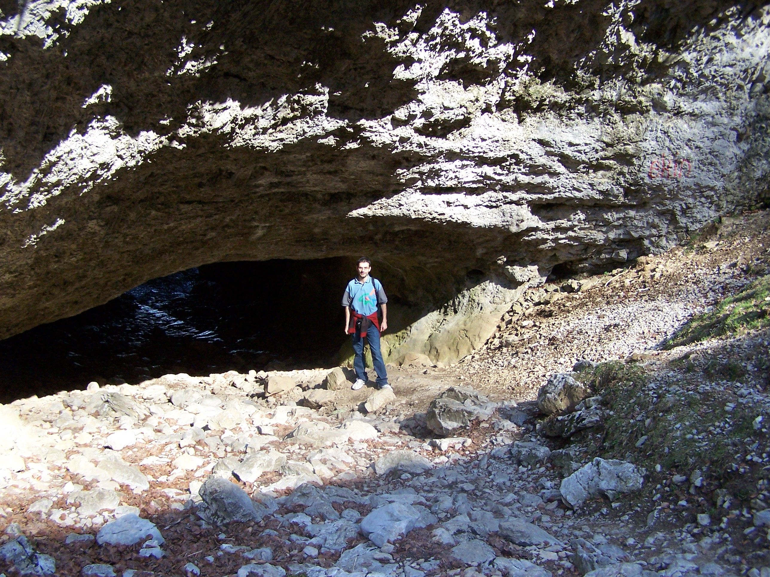 Western entrance of Lizarrate